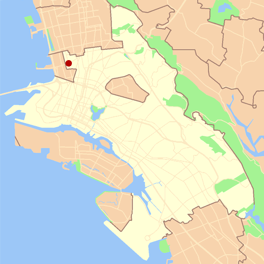 Map showing the location of Golden Gate in the city of Oakland, California. Created by User:Nogood using U.S. Census Bureau data.